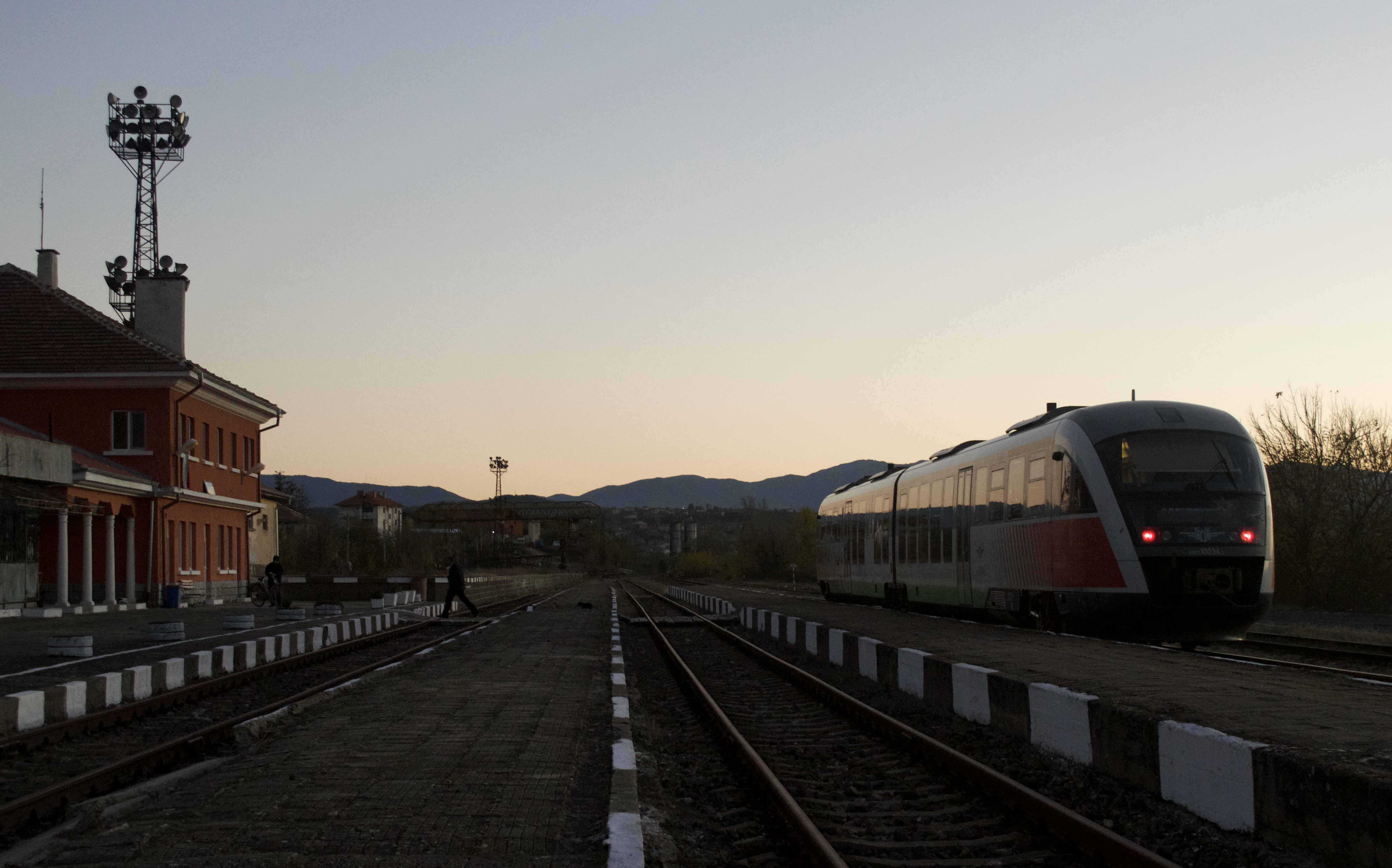 With the sunsetting, it was time for a quick few photos at Podkova on 25 October 2018 prior to returning back a few stops to Momchilgrad for the night. 10034 with 10033 behind will form train 40268, 18:40 Podkova to Momchilgrad.